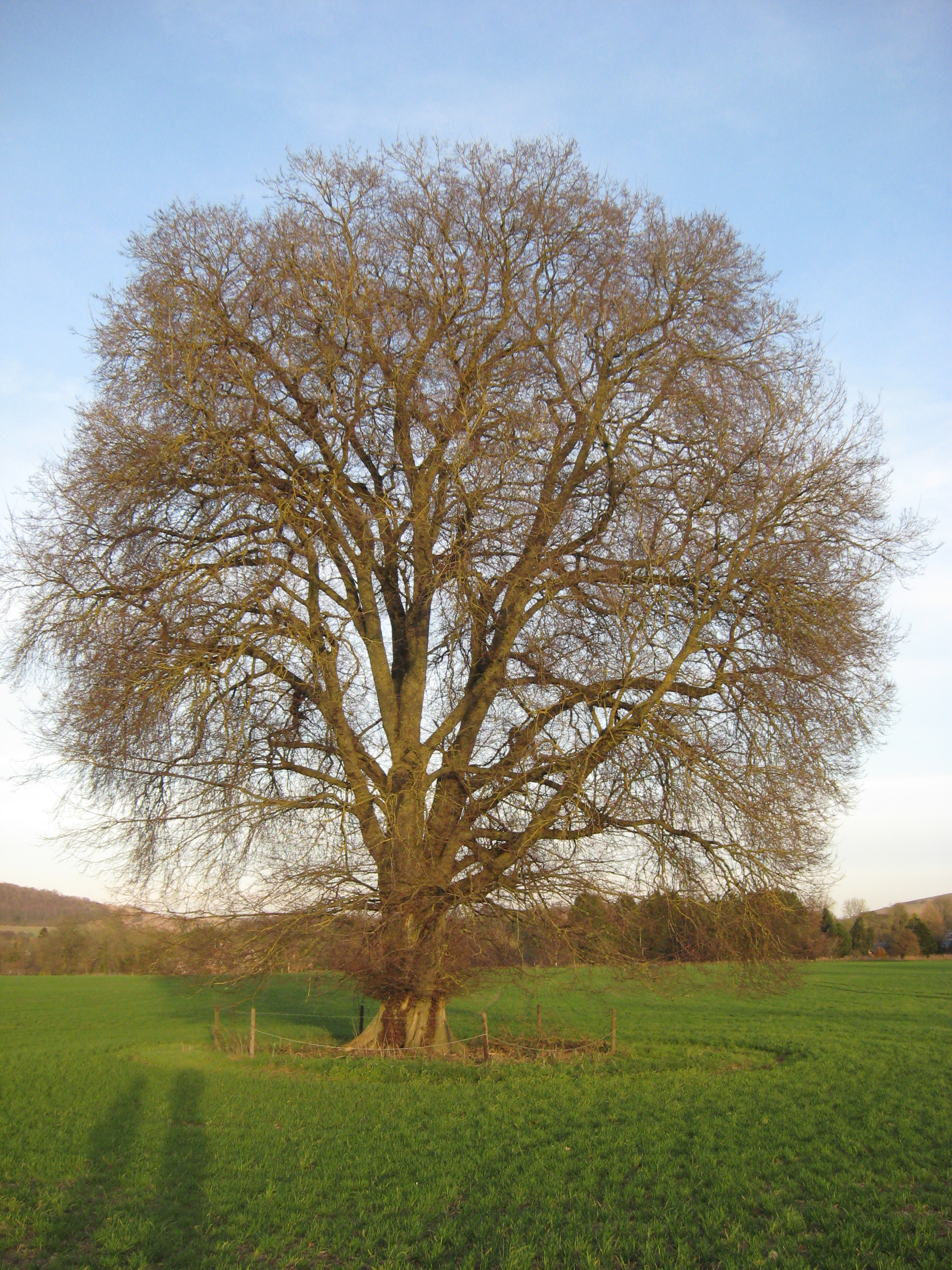 Ulmus laevis, commonly known as the European White Elm, growing in a field in Wiltshire, UK, girth in 2018 was 4.2m, estimated age 165 years.